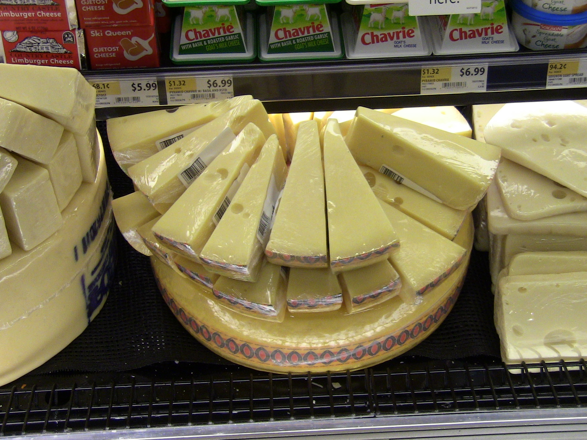 Jarlsberg in Wholefoods, Washington DC